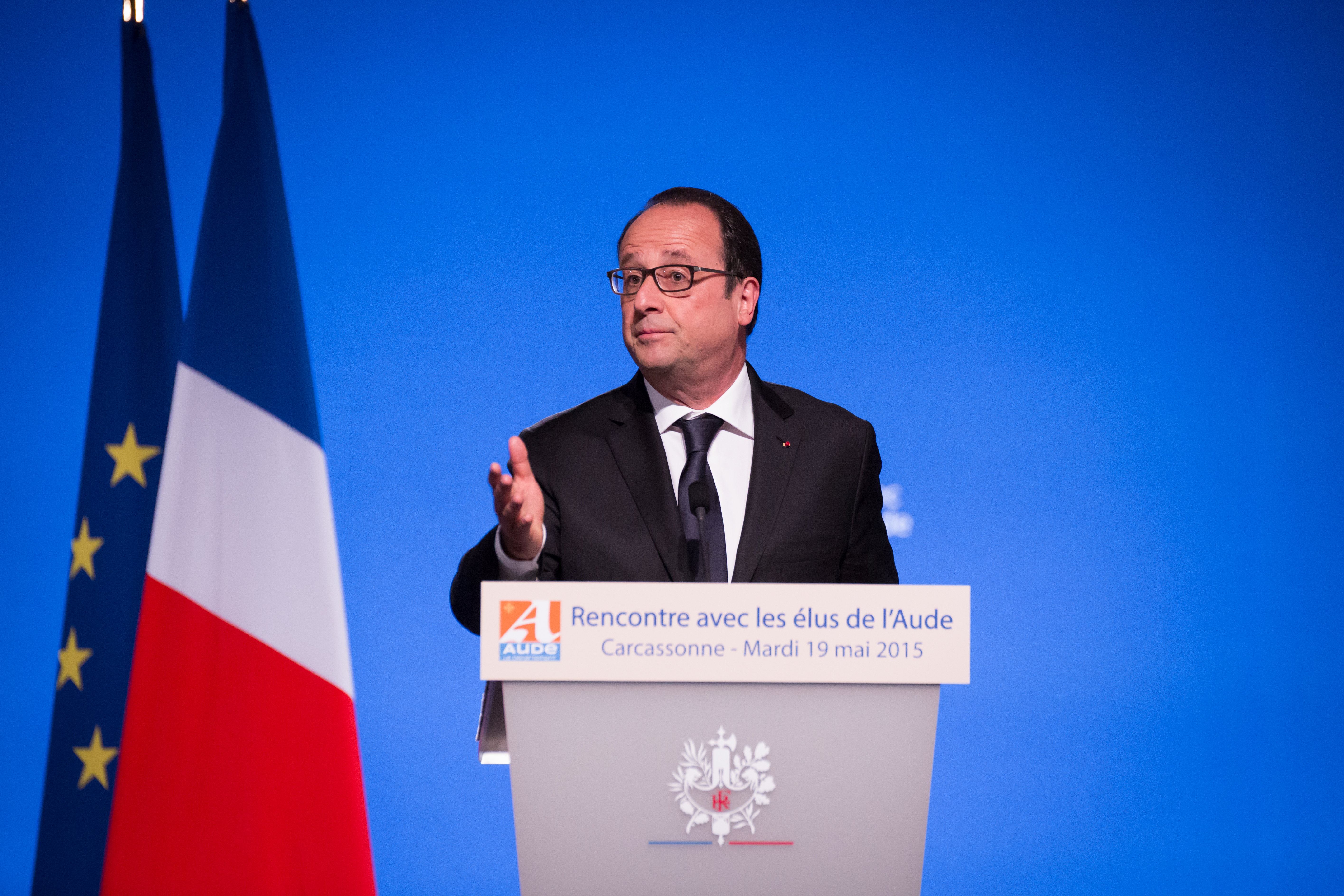 The President of the French Republic François Hollande, May 19, 2015 in Carcassonne. Aude - Languedoc Roussillon